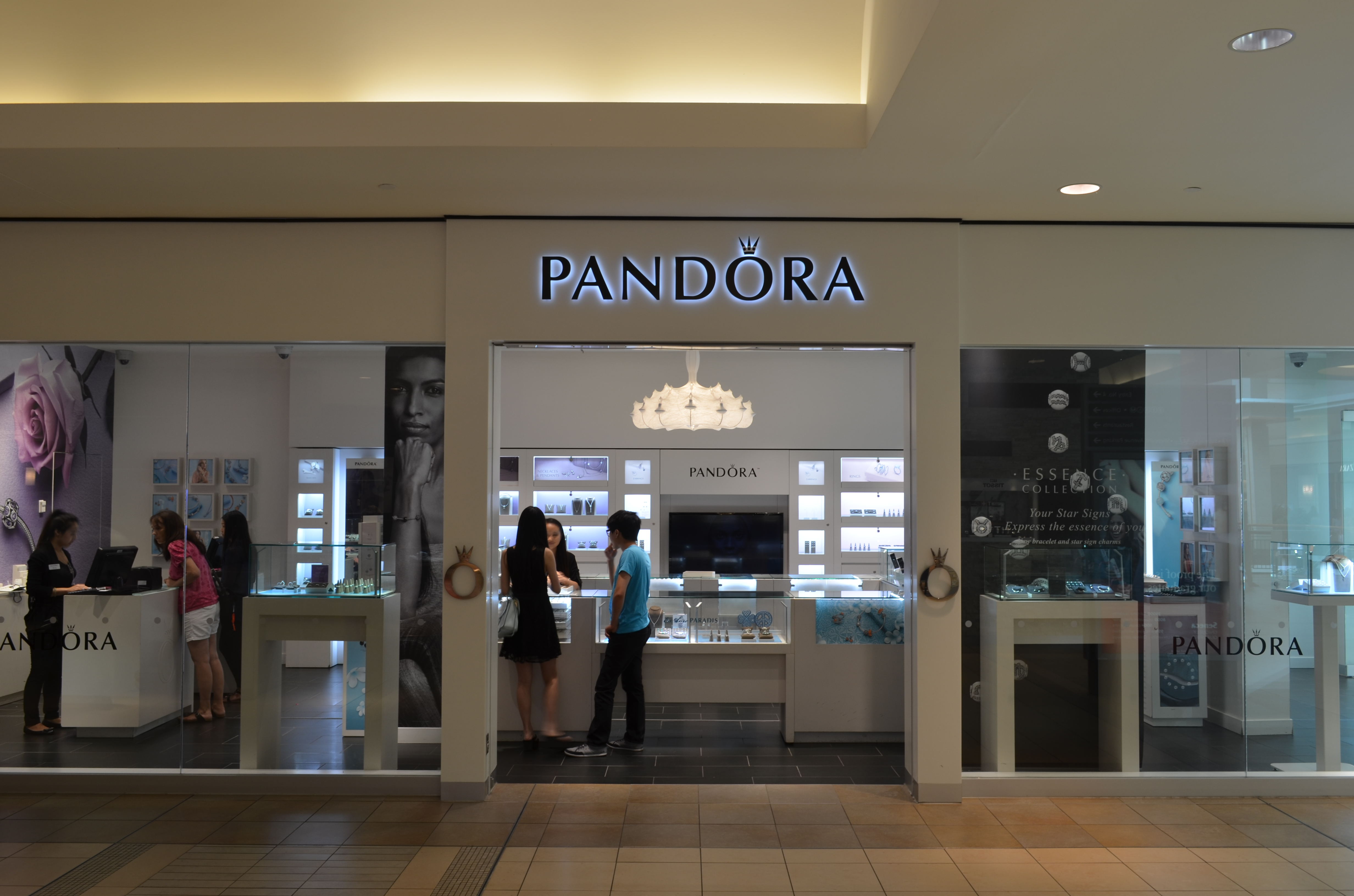 PANDORA